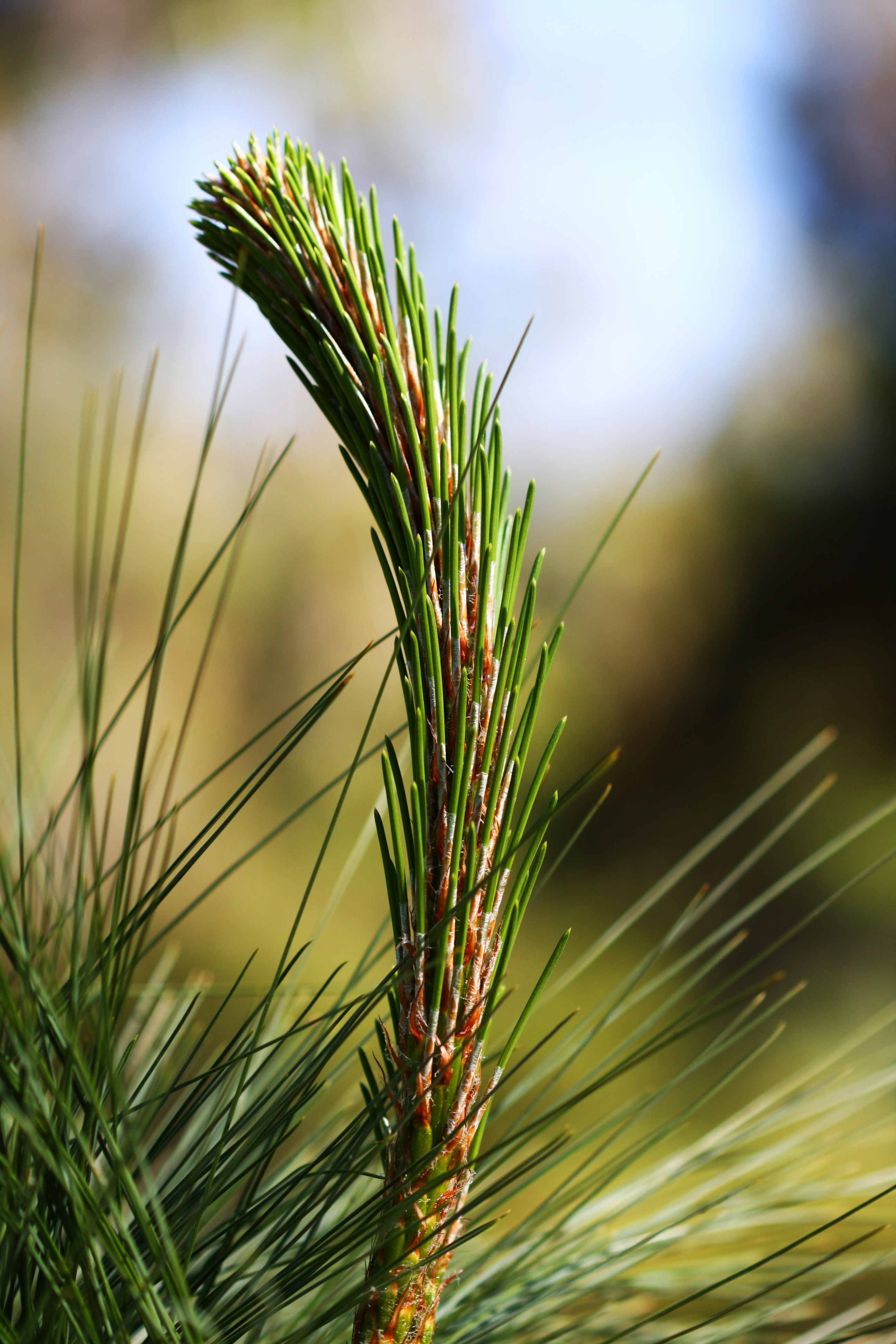 Pinus oocarpa young shoot in spring, cultivated, Los Angeles County Arboretum